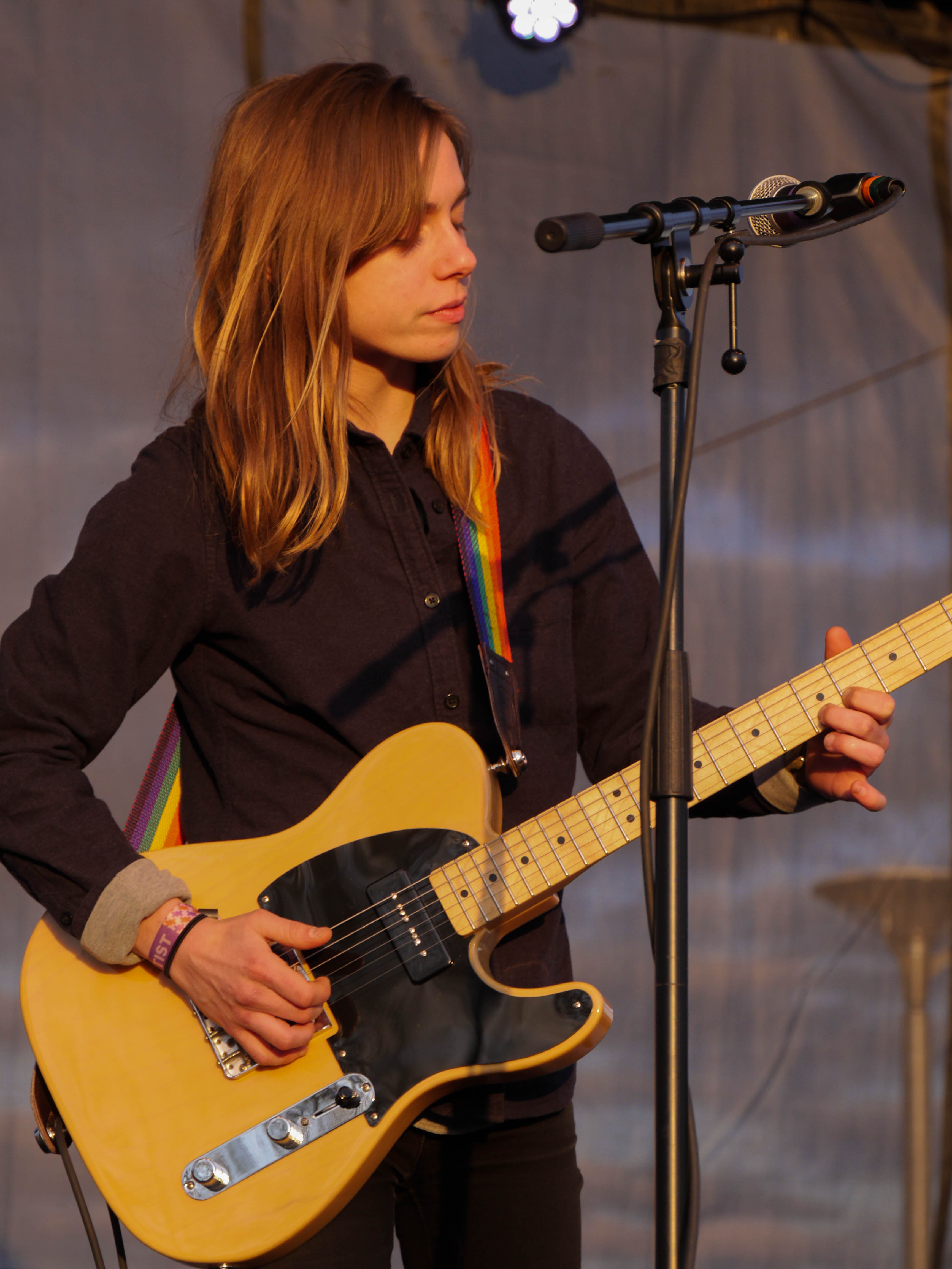 Julien Baker performing at The National's Homecoming festival in Cincinnati, Ohio - April 28, 2018